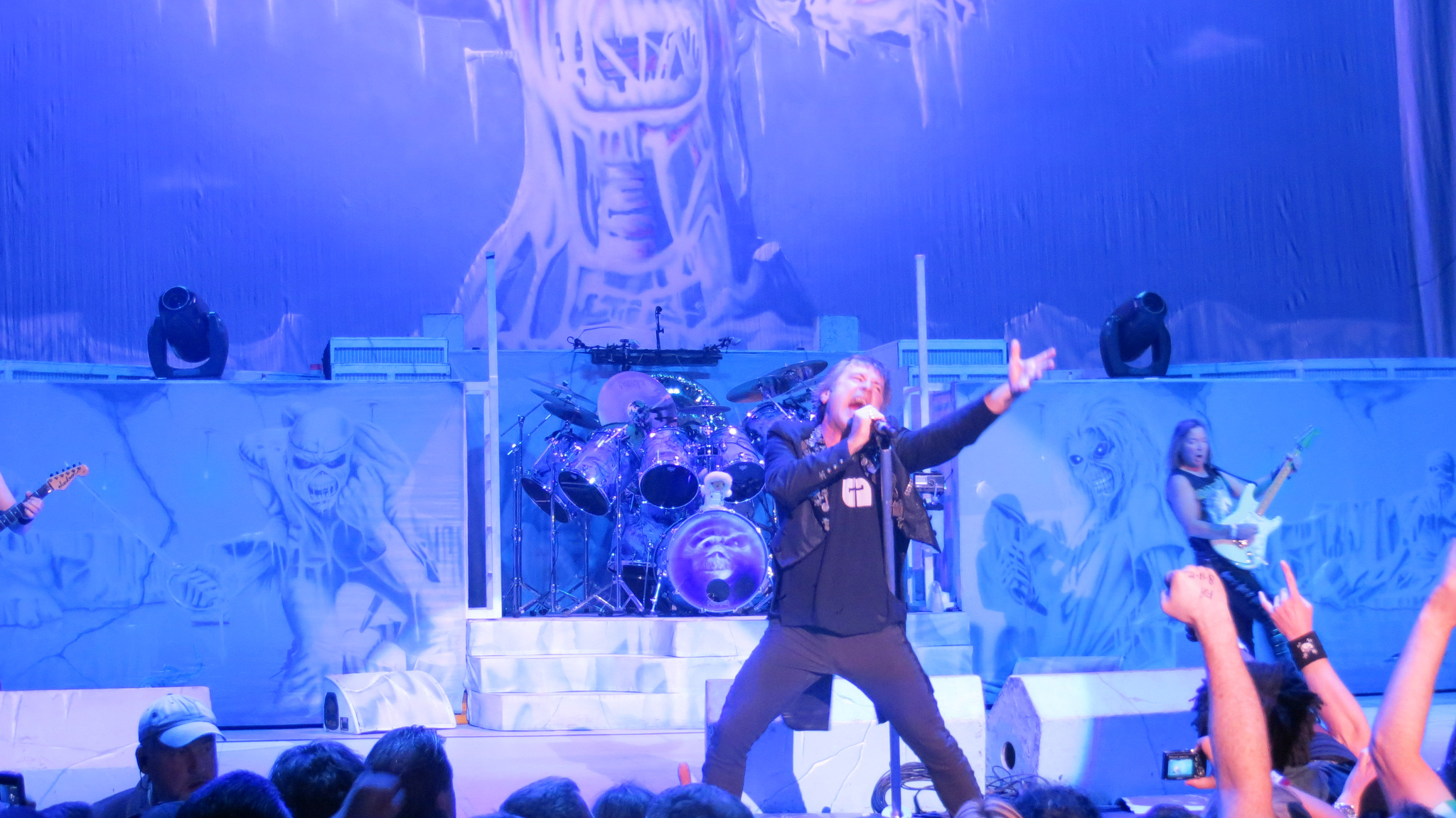 Iron Maiden performing live in Denver, 13 August 2012